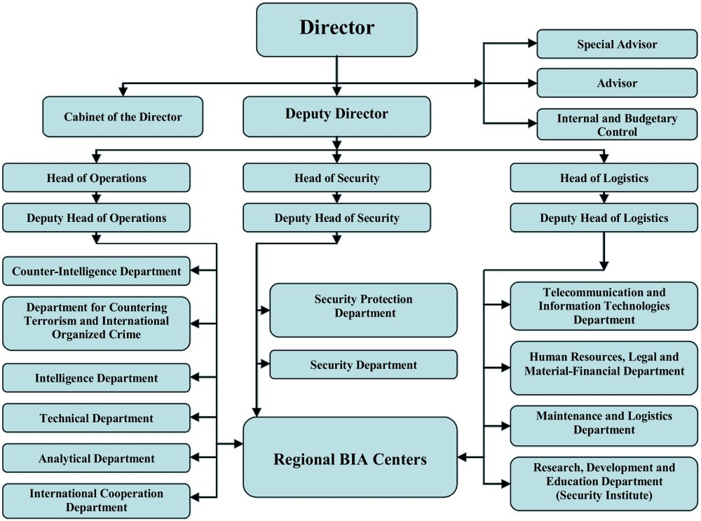 Image